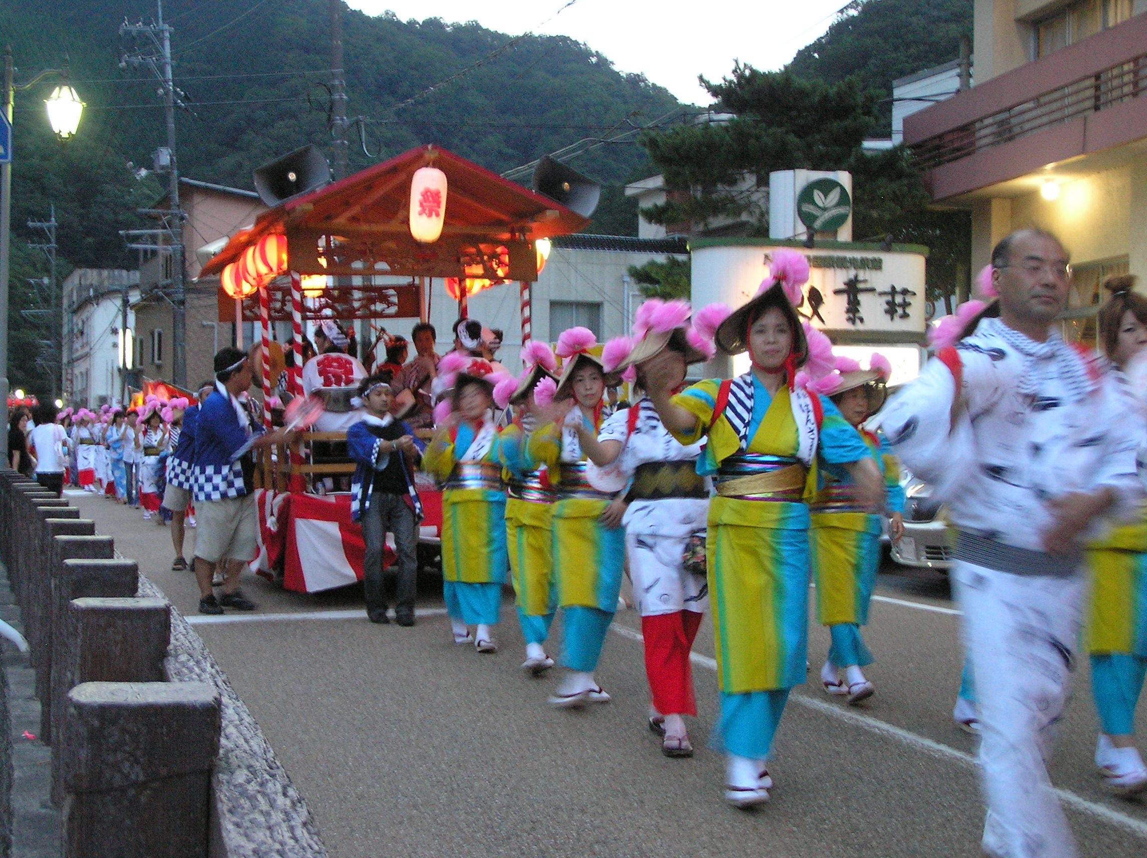 The parade of Giant Salamander Festival, an annual event held at Yubara Onsen in Maniwa, Okayama prefecture, Japan.